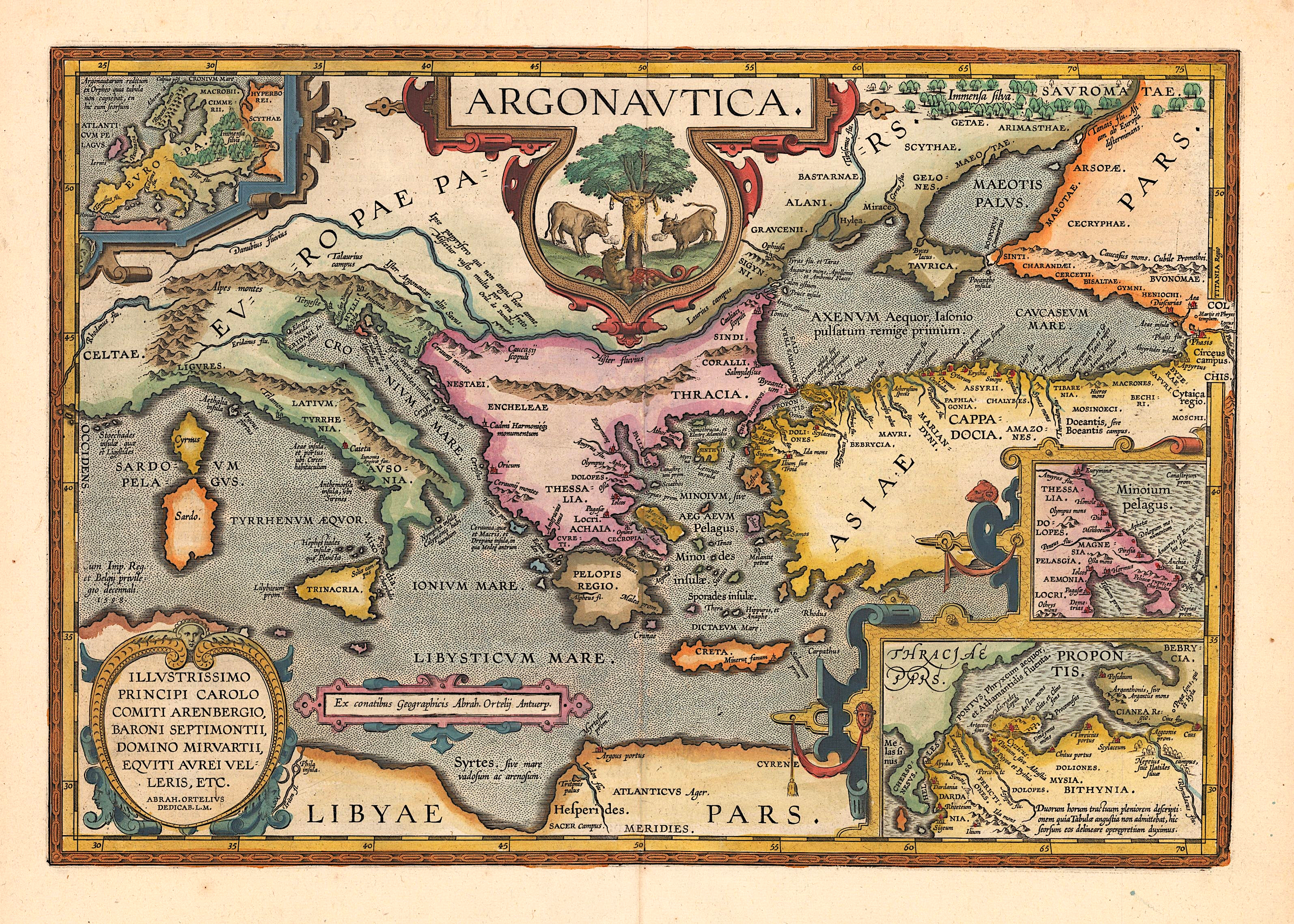 Scan of map from Ortelius "Parergon" published in 1624.